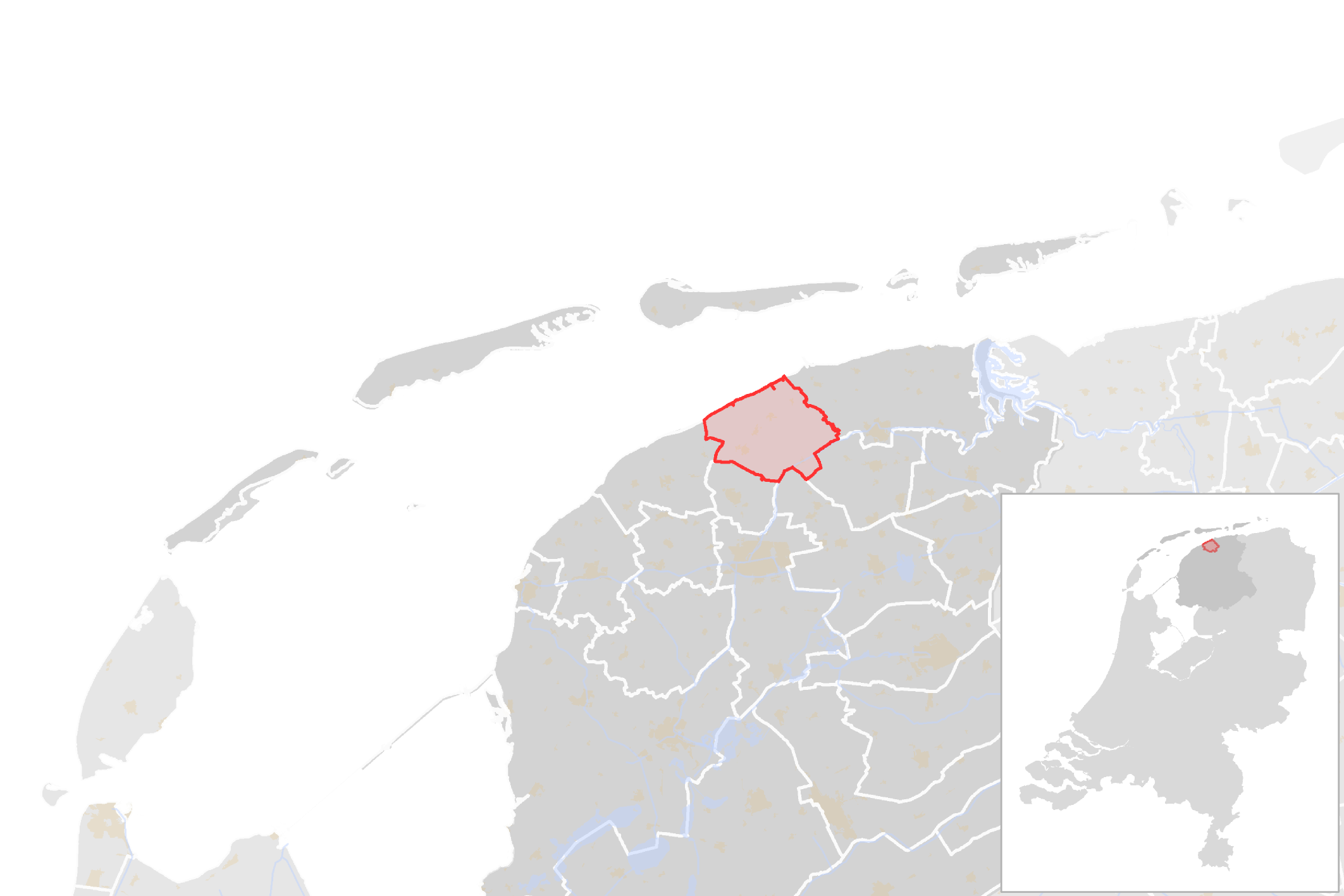 Locator map showing municipality boundary of one of the 390 Dutch municipalities (as of 2016)